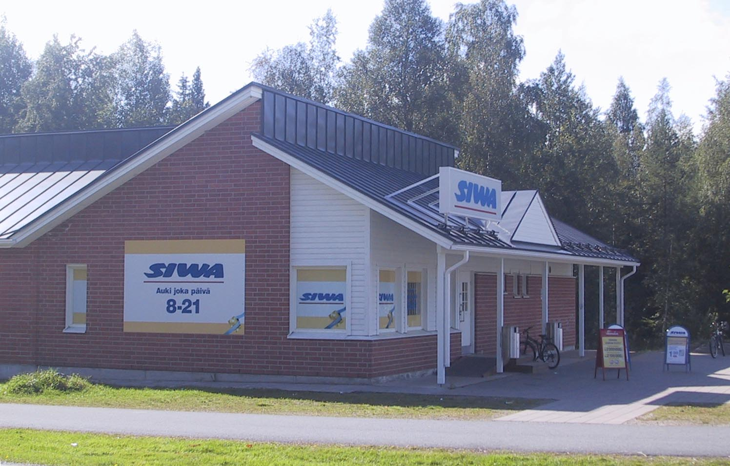 Siwa in Kokkokangas, Kempele.